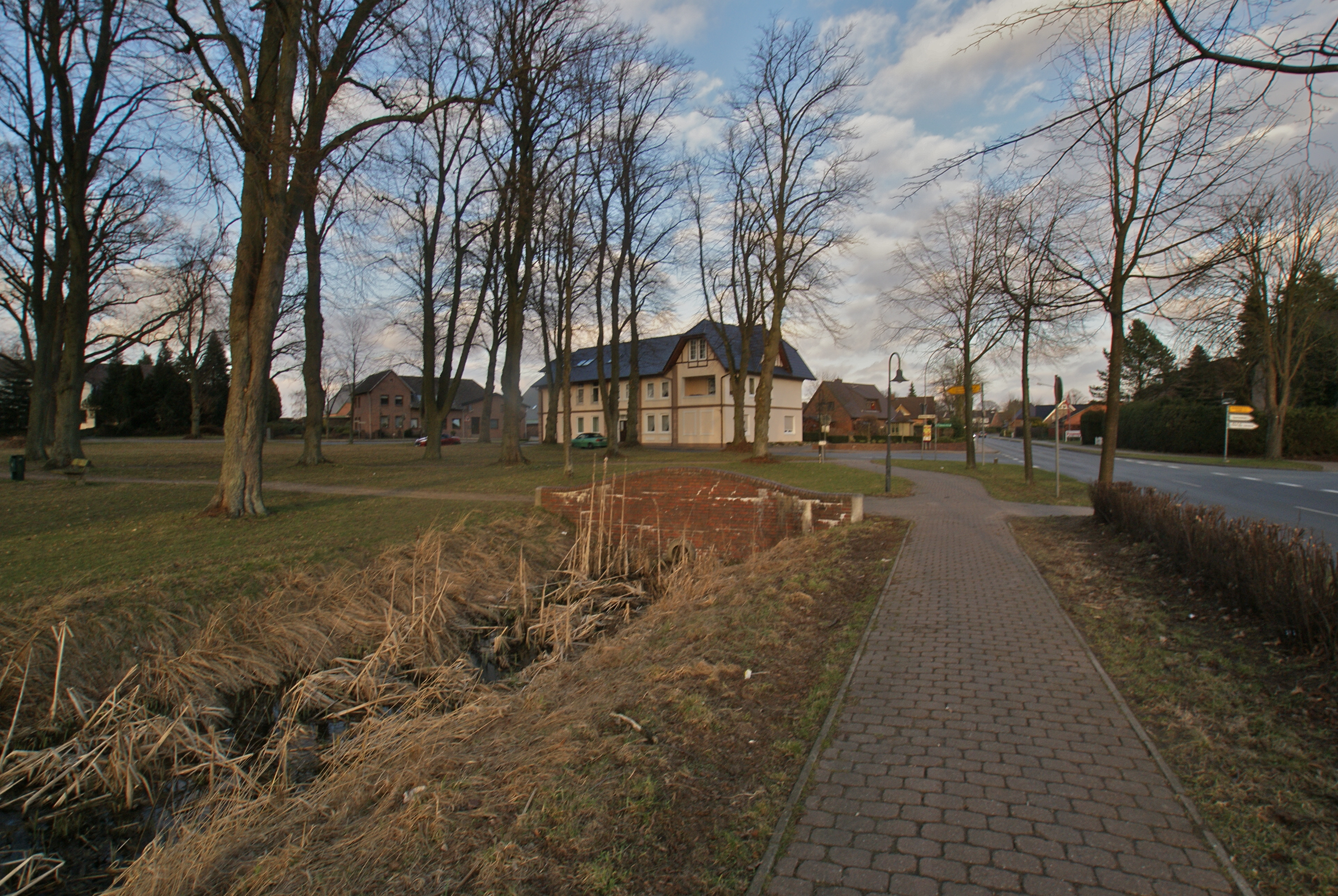 Bargfeld-Stegen, Germany: The spring of the river Wedenbek at the pond Dörpsdiek